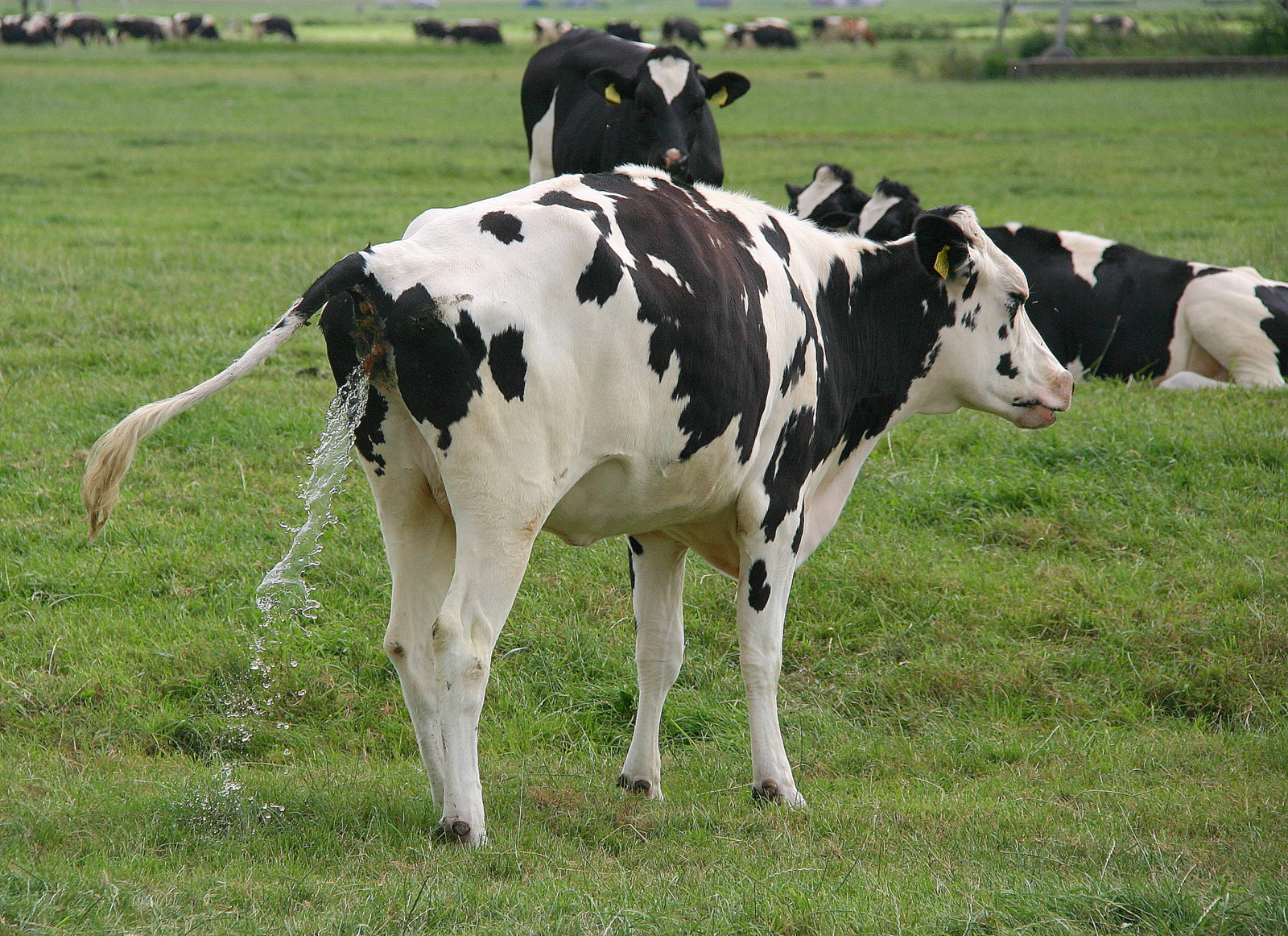 Urinating cow in polder